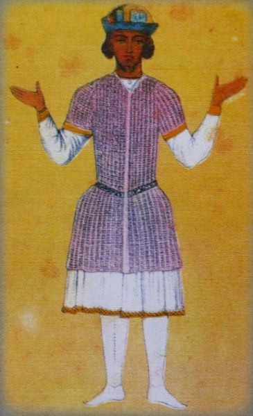 George XI of Georgia